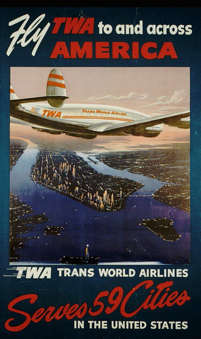 Poster from the Don Thomas Collection. Mr. Thomas was a collector of aircraft memorabilia who donated several posters to the San Diego Air and Space Museum. Repository: San Diego Air and Space Museum Archive